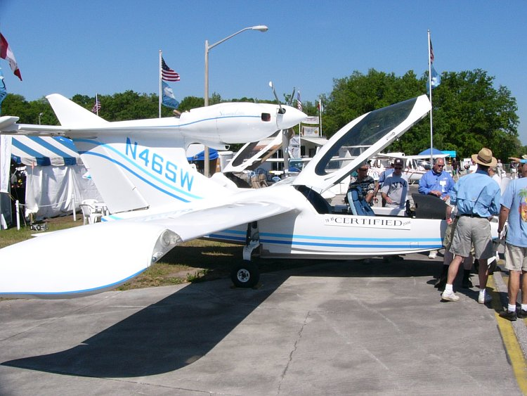 A Seawind at Sun n Fun